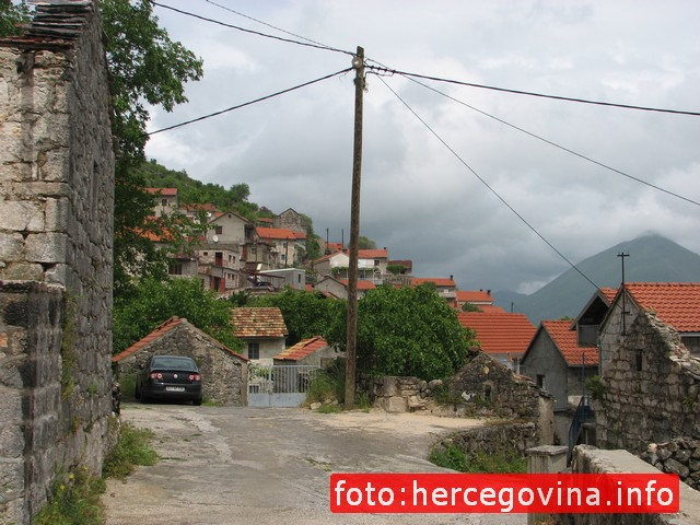 Selo Ravno